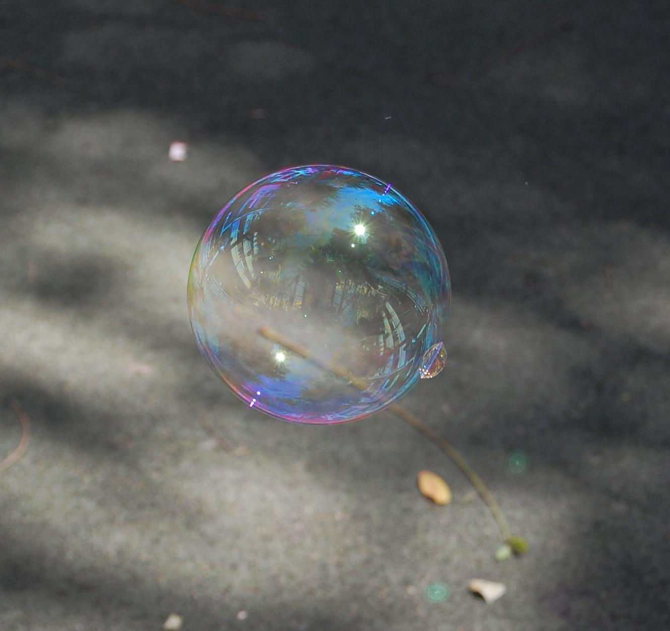 Soap bubble